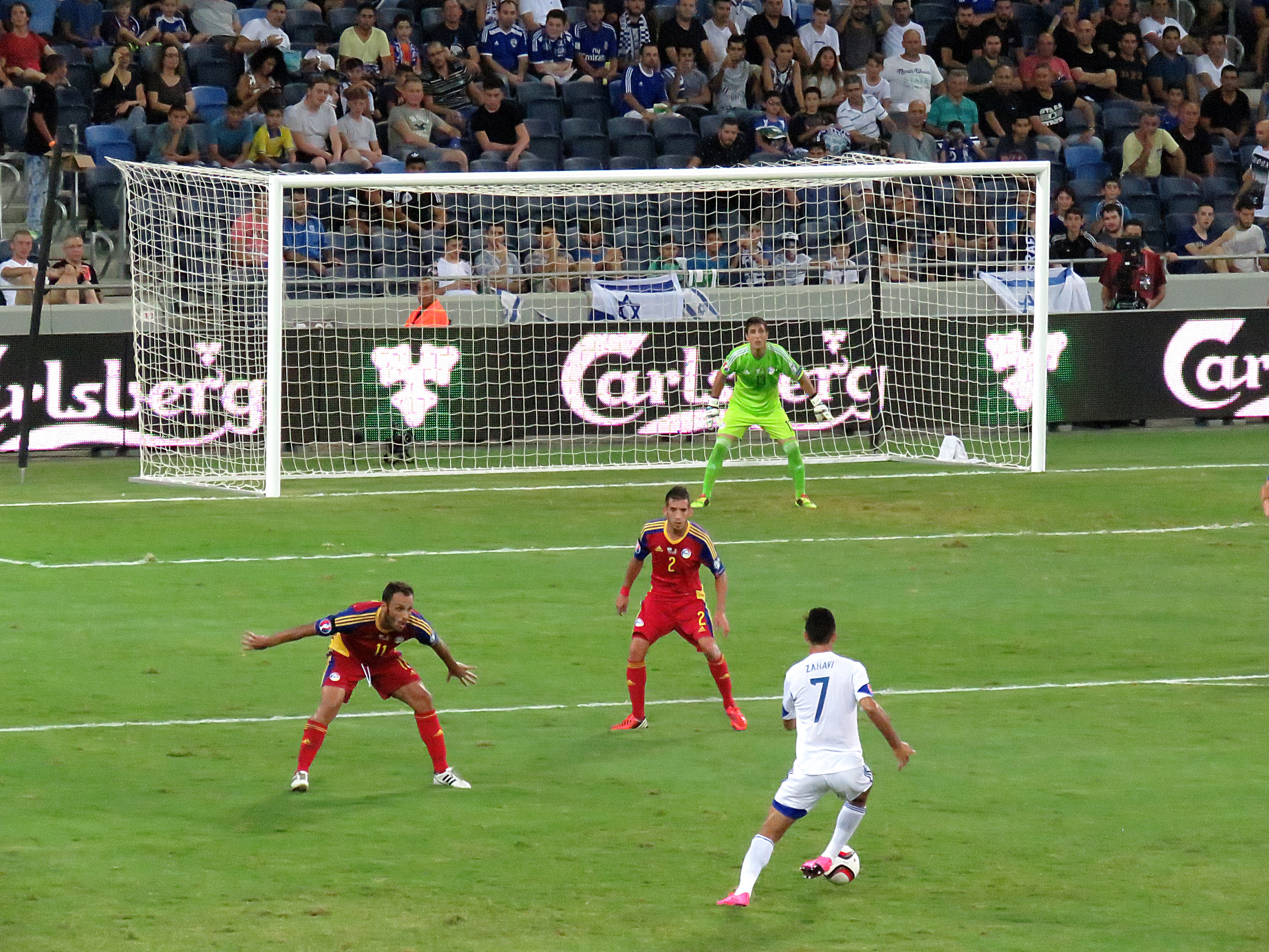 Israel vs. Andorra - September 3, 2015